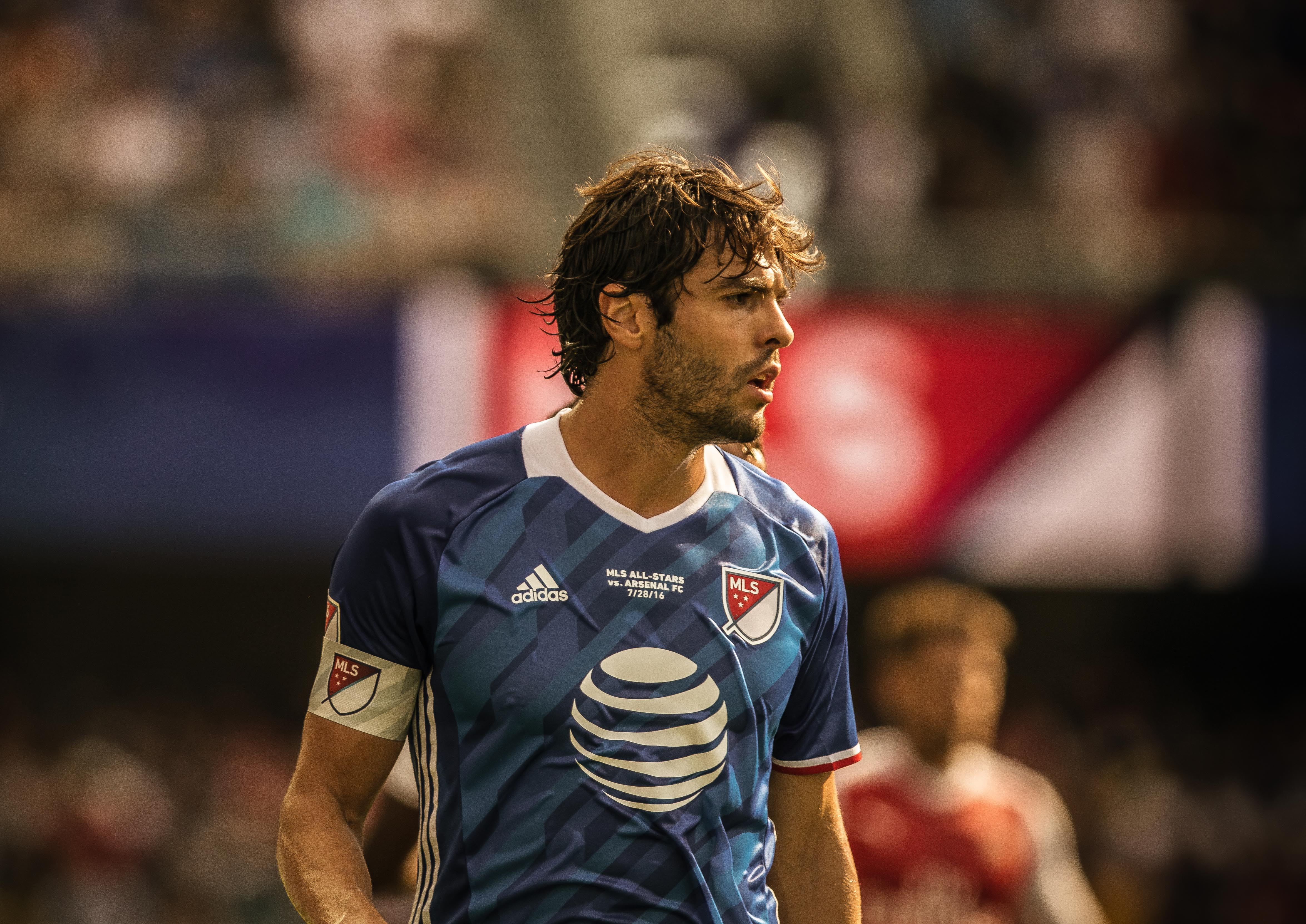 Kaka 17